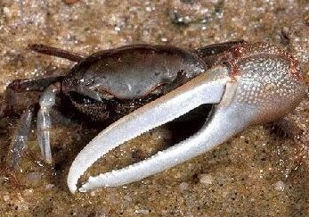 Fiddler crab (Uca minax) from NOAA CSC. Bild:Fiddler crab.jpg